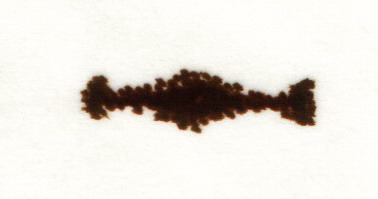 Hubble Galaxy Type SB